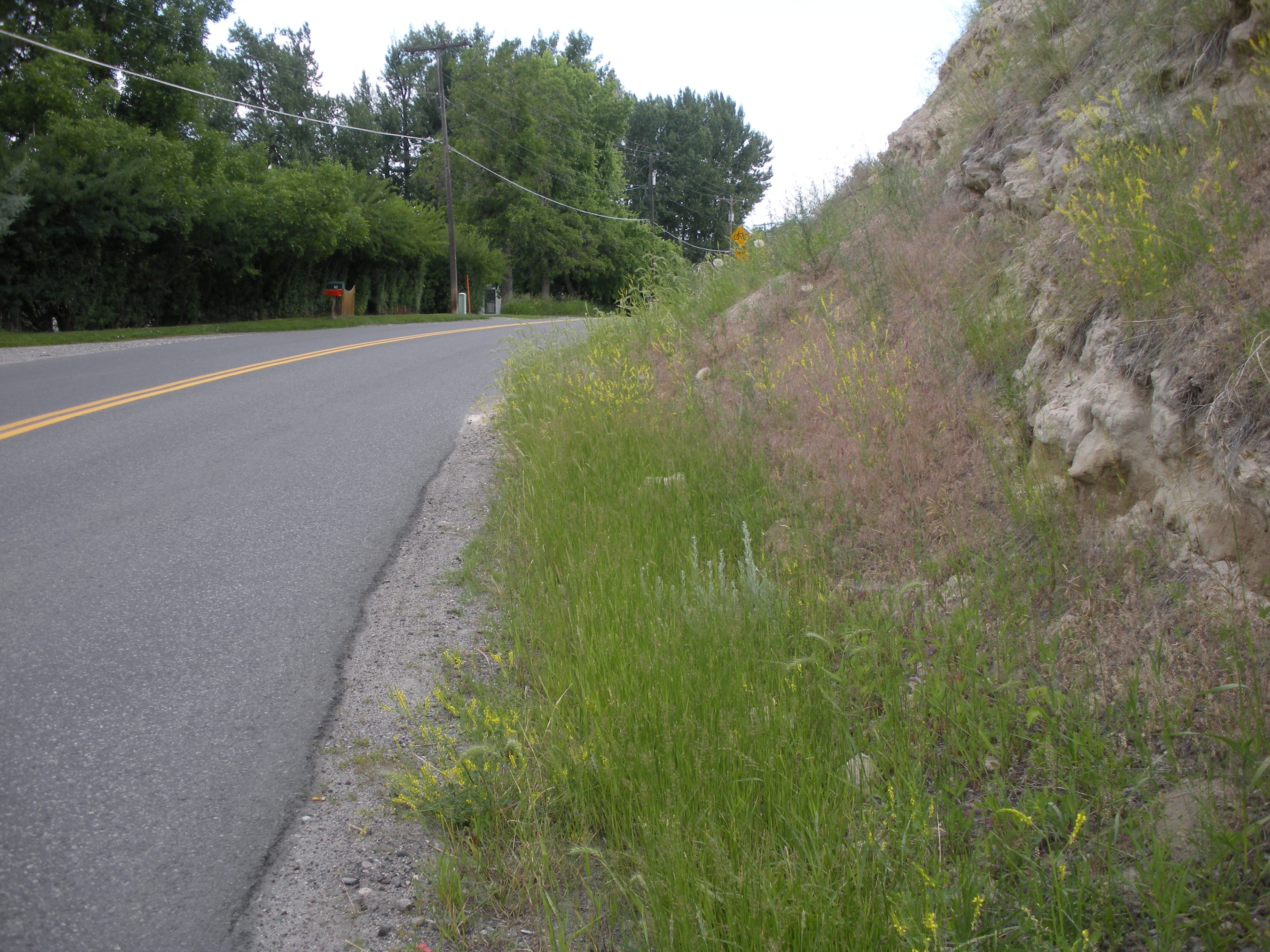 Poa compressa forms the characteristic dense stand right along the roadside in the foreground (Elymus canadensis is in the distant background)